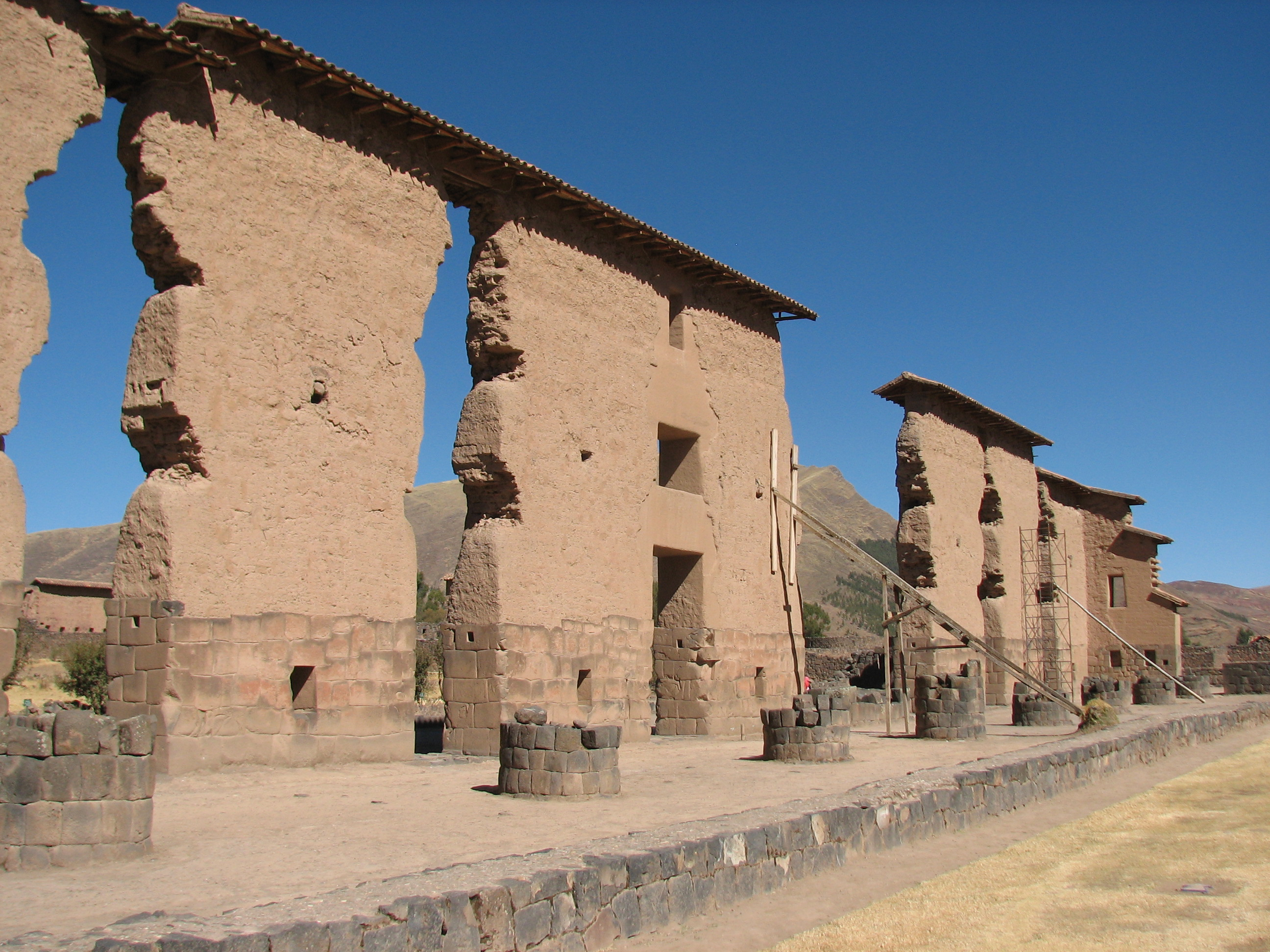 Raqchi archaeological site in Peru